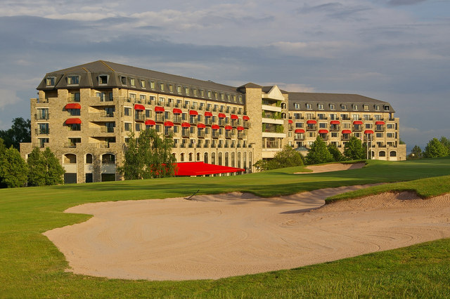 The Resort Hotel, Celtic Manor Resort, Newport, Wales